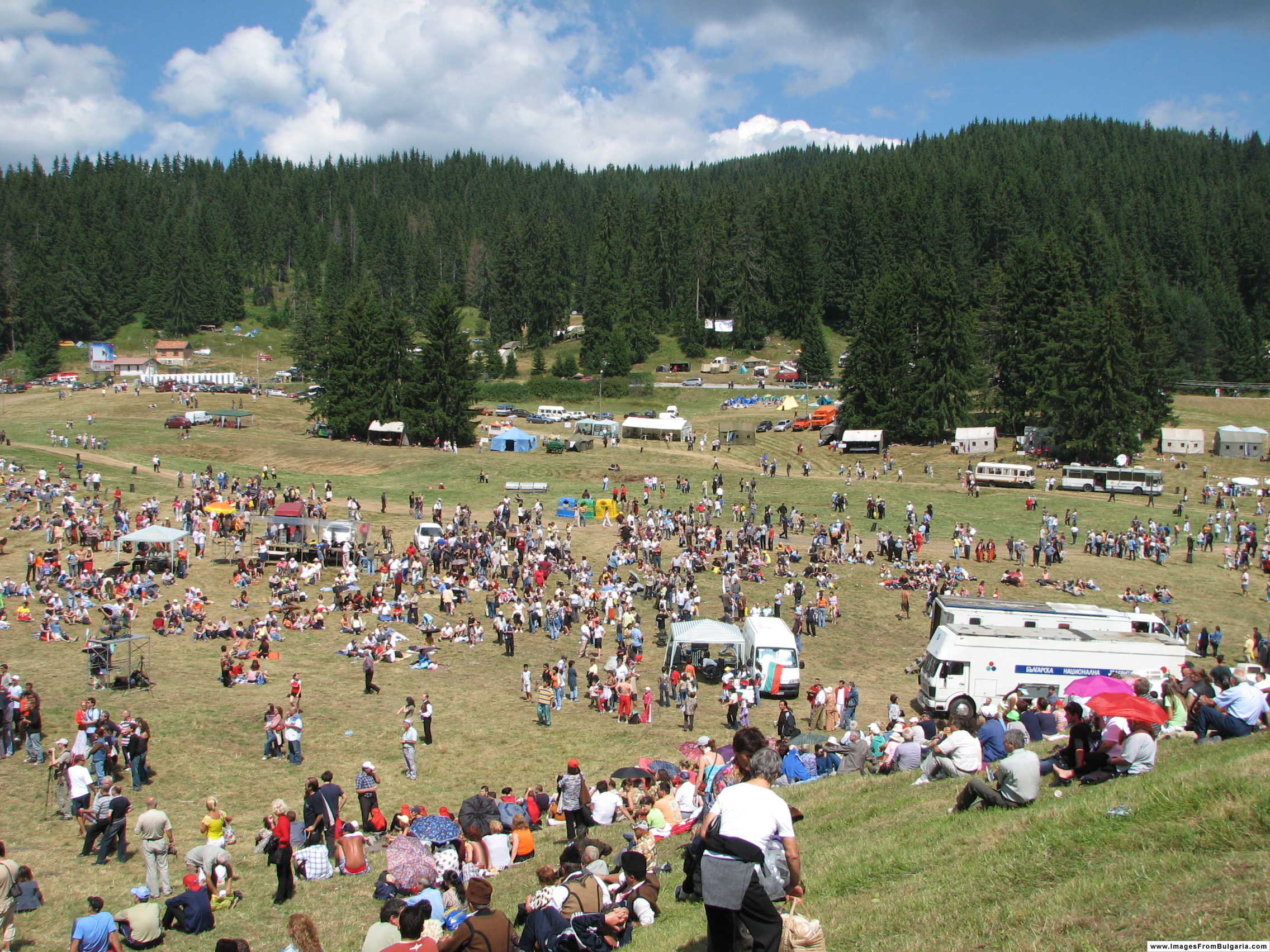 Rozhen National Folklore Fair, Bulgaria. Author: Stoycho Bozukov.